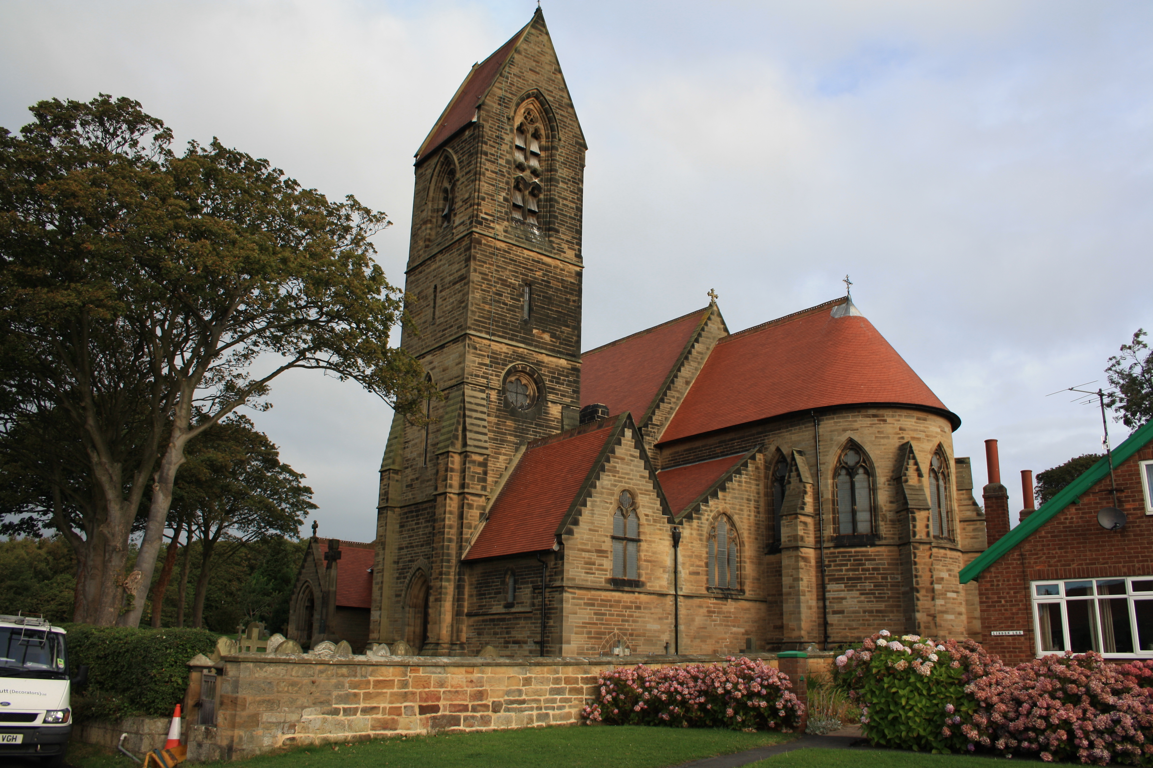 The new St Stephens Church, Robin Hoods Bay